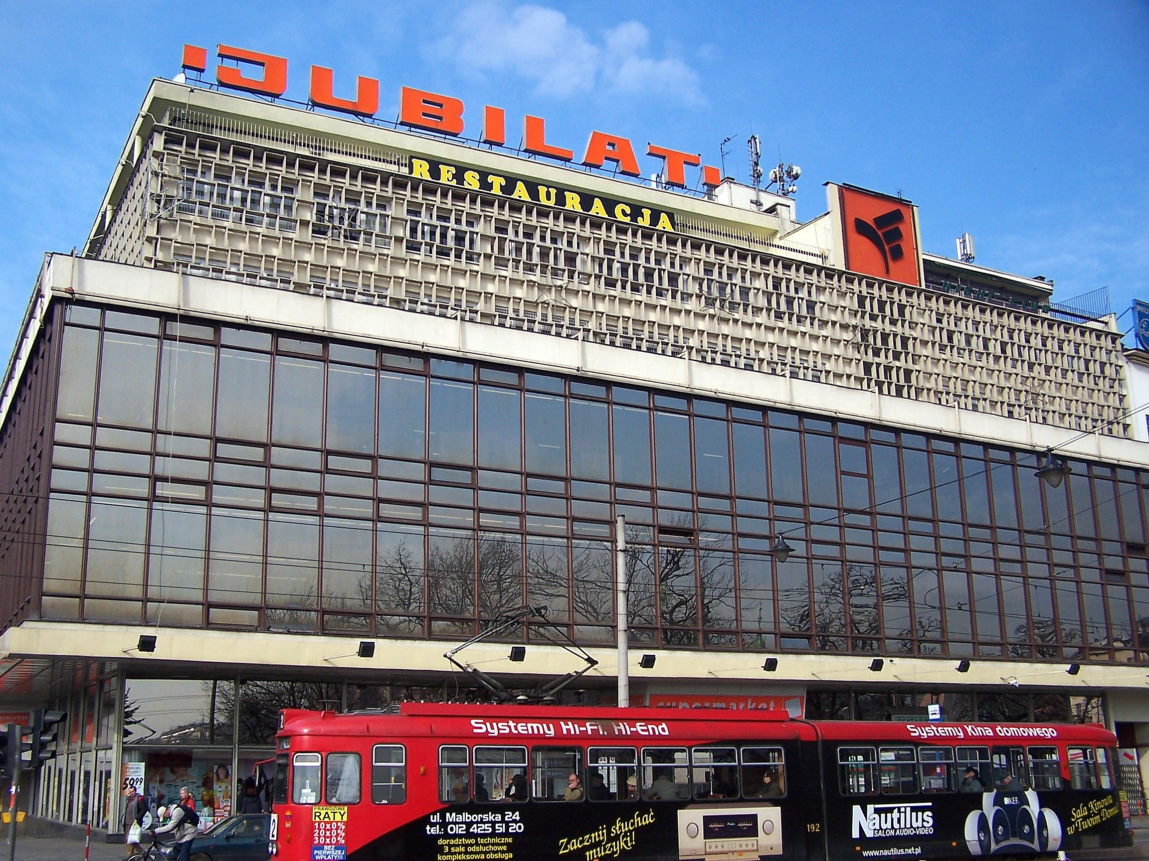 Department store Jubilat in Cracow